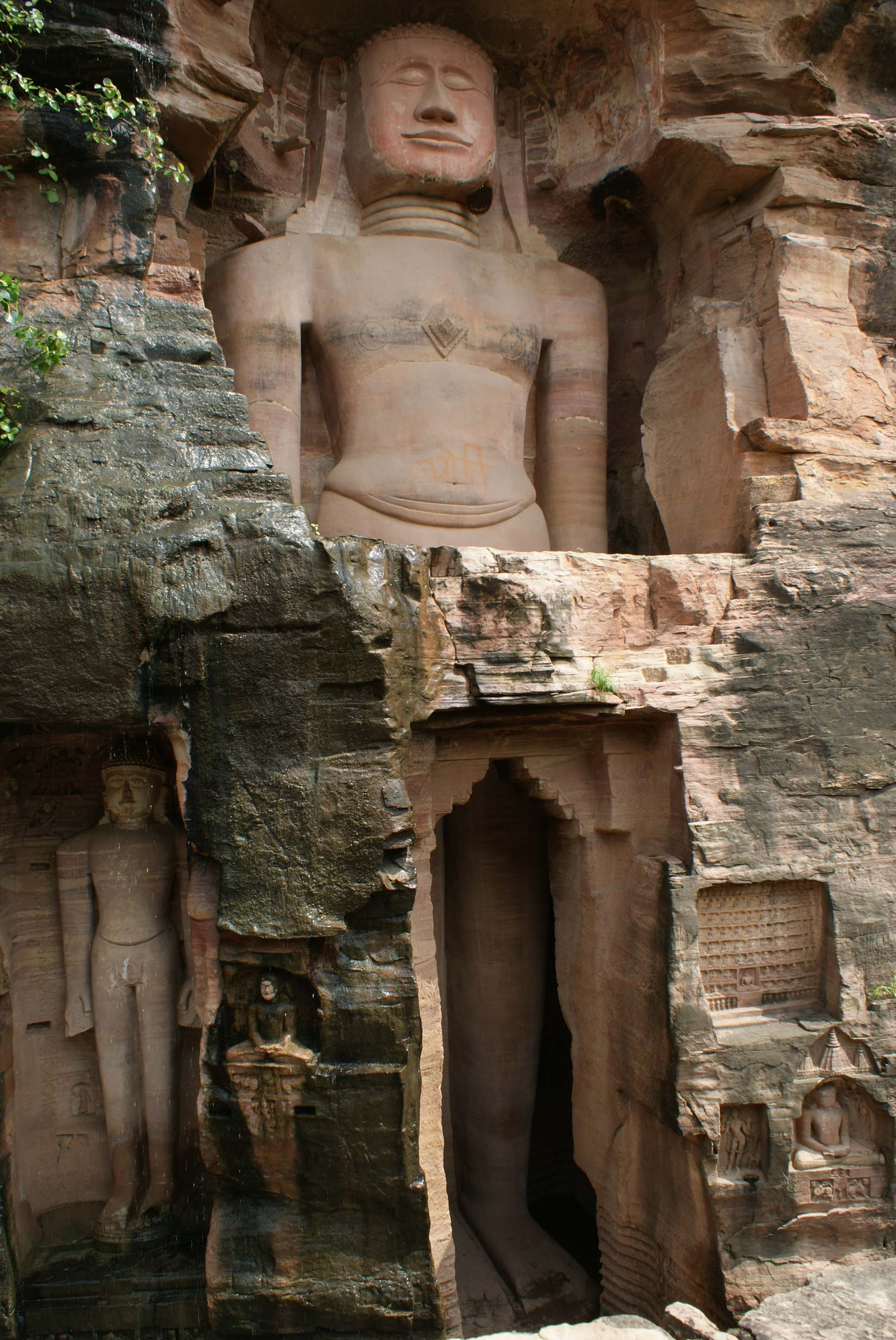 Sculptures carved on the rock in Gwalior Fortress